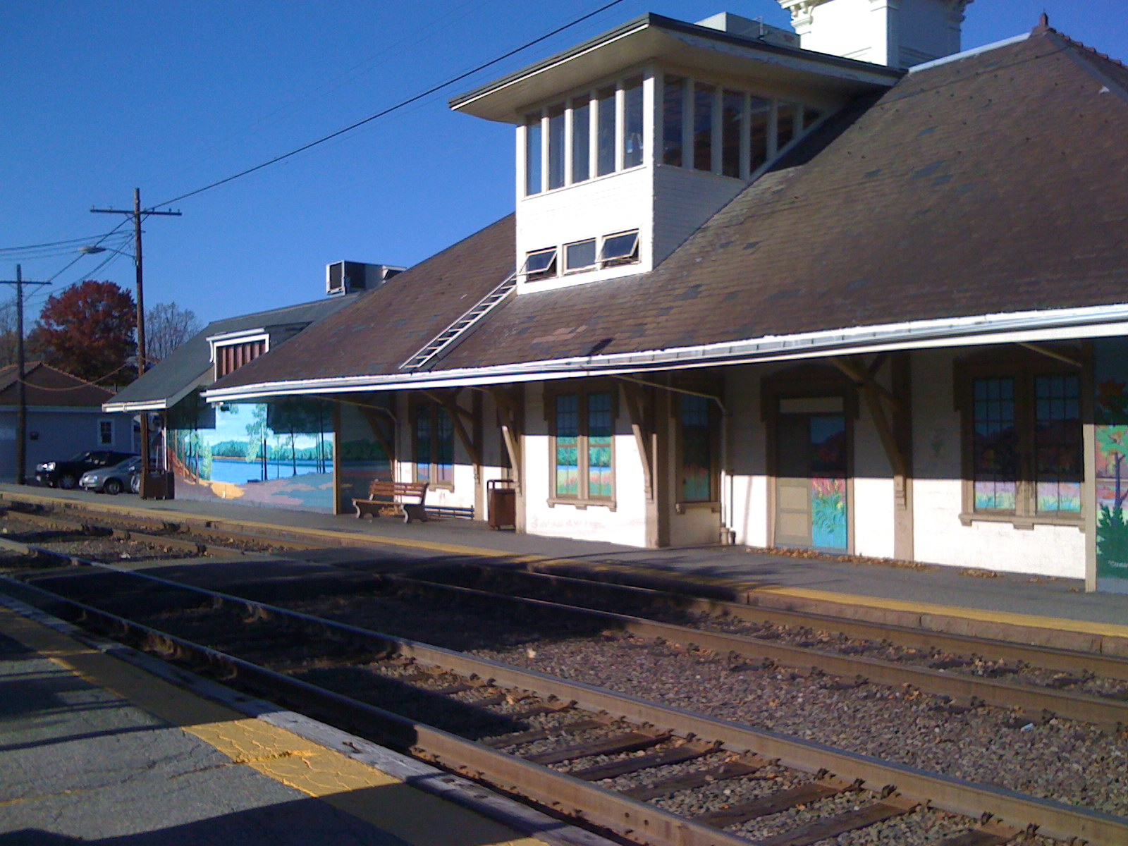 Outbound building at Concord station